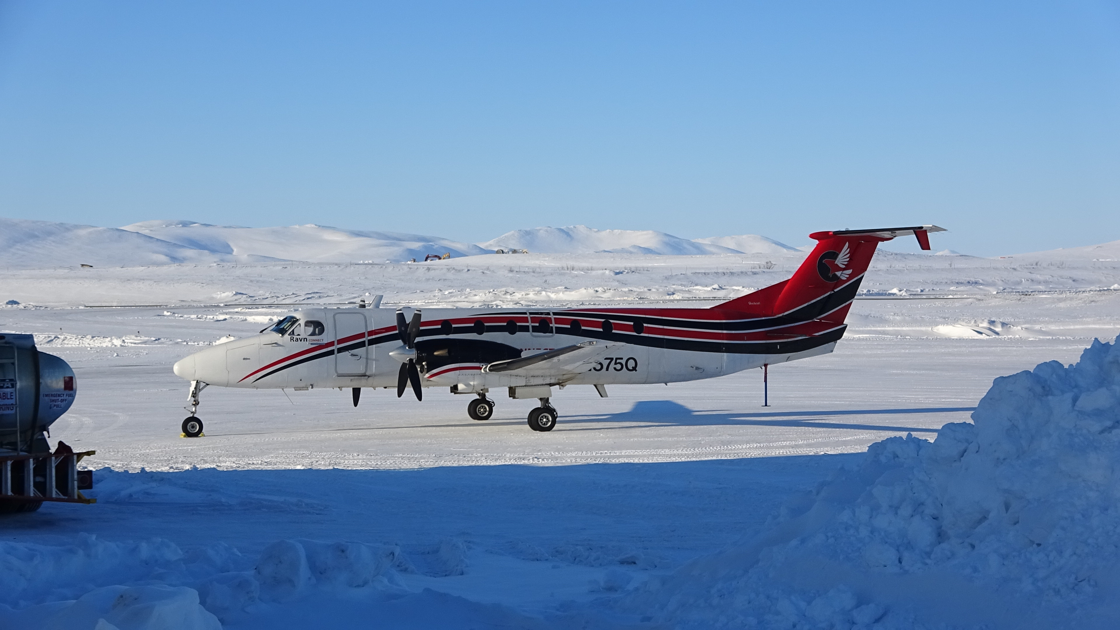 A Ravn Alaska Beechcraft 1900C (N575Q) in Nome, Alaska.